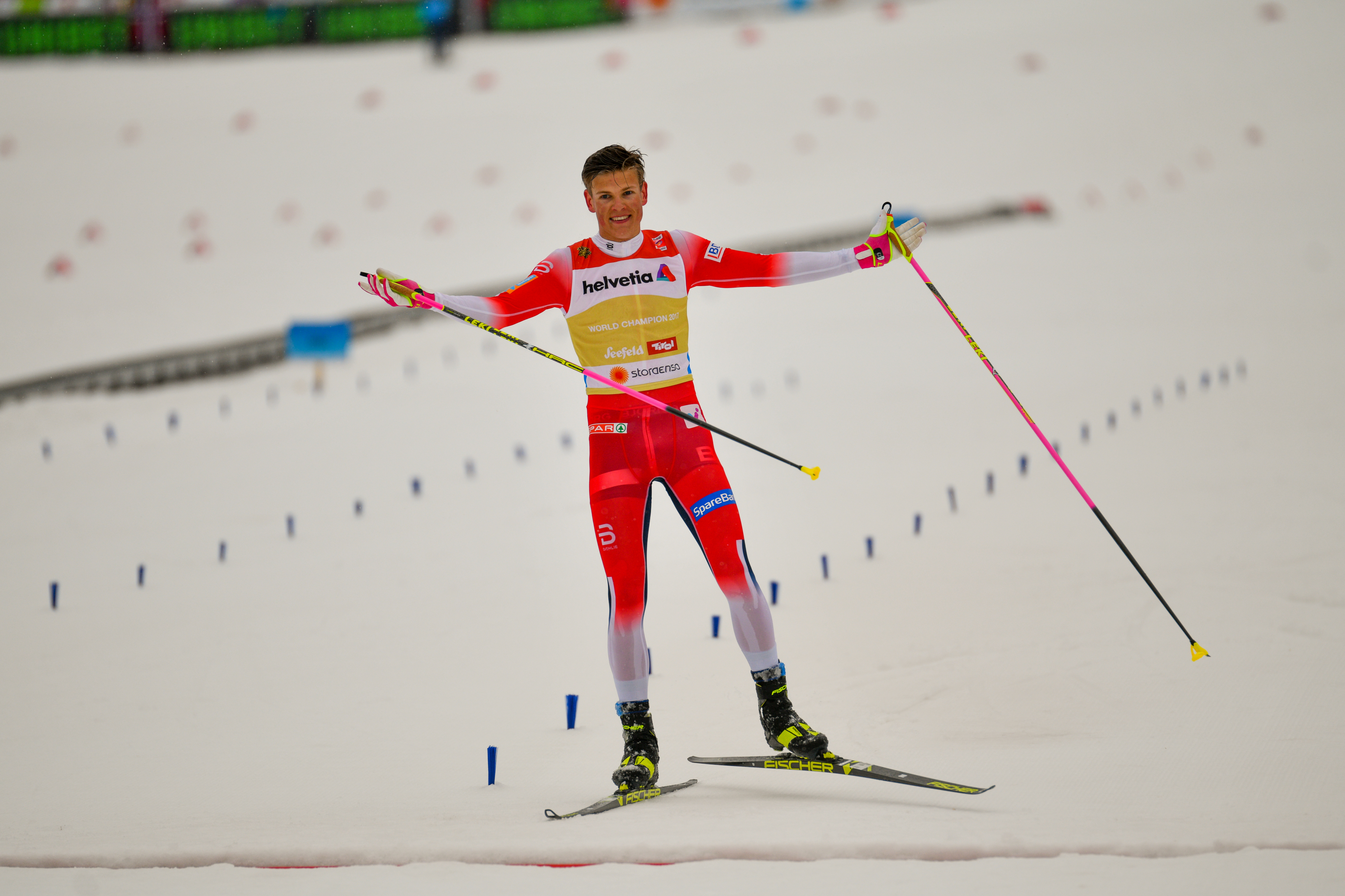 FIS Nordic Wolrd Ski Championships Seefeld 2019 - Men 4x10km Relay Classic/Free. Picture shows Johannes Hoesflot Klaebo (NOR).